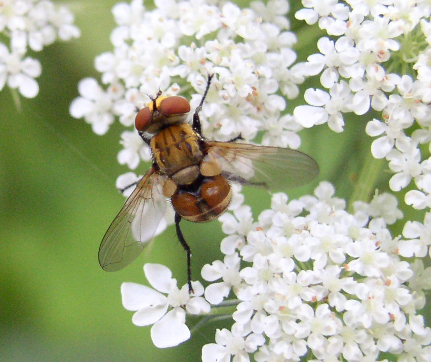 Male tachinid fly, Gymnoclytia. Pennypack Restoration Trust, Montgomery County, Pennsylvania, USA.